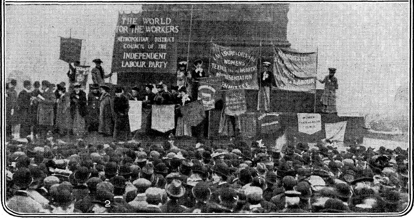 Eva Gore-Booth addressing a rally at Trafalgar Square, part of the Mud March